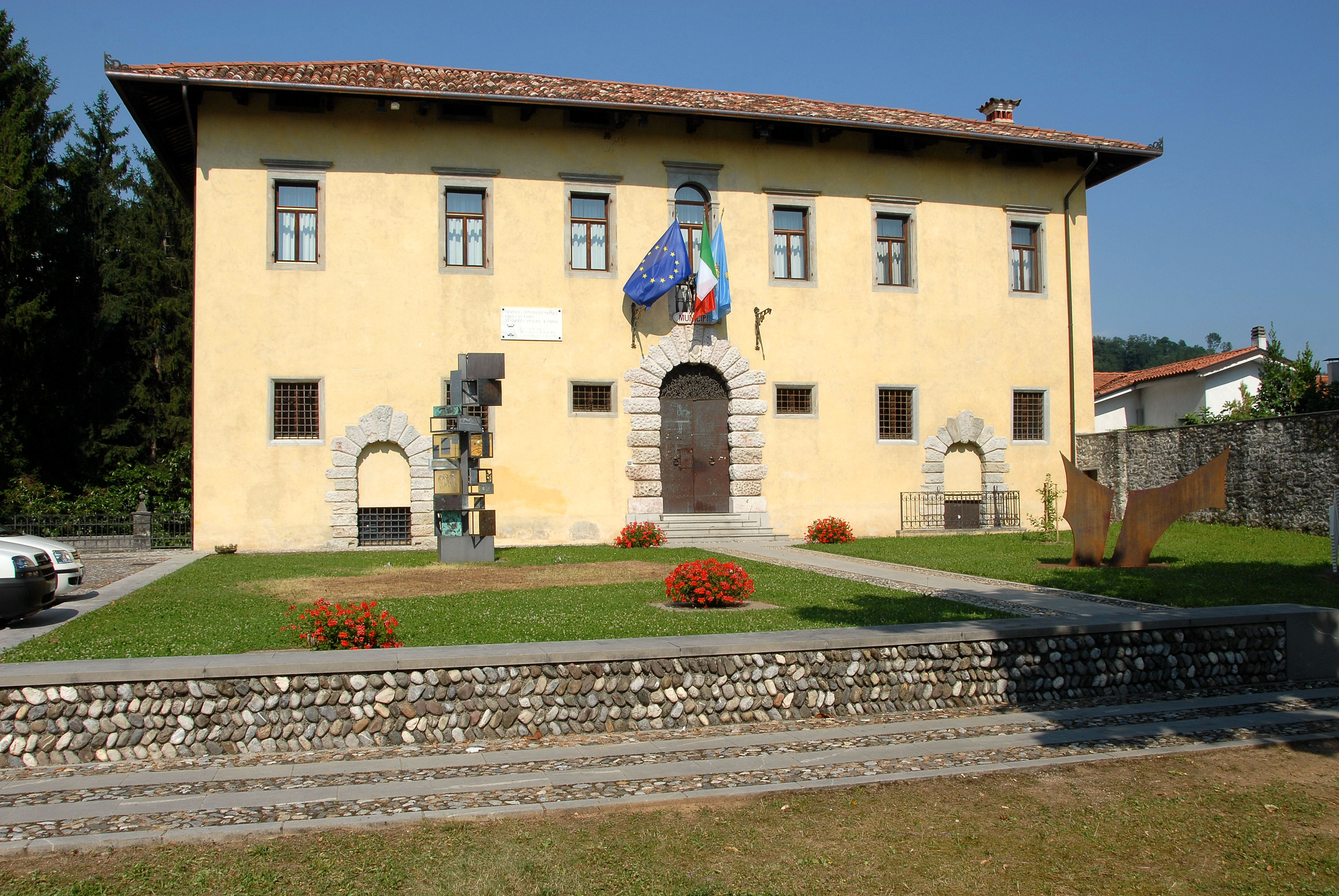 Palace Frangipane, nowadays in function of the town hall in Tarcento, province of Udine, region Friuli-Venezia Giulia, Italy